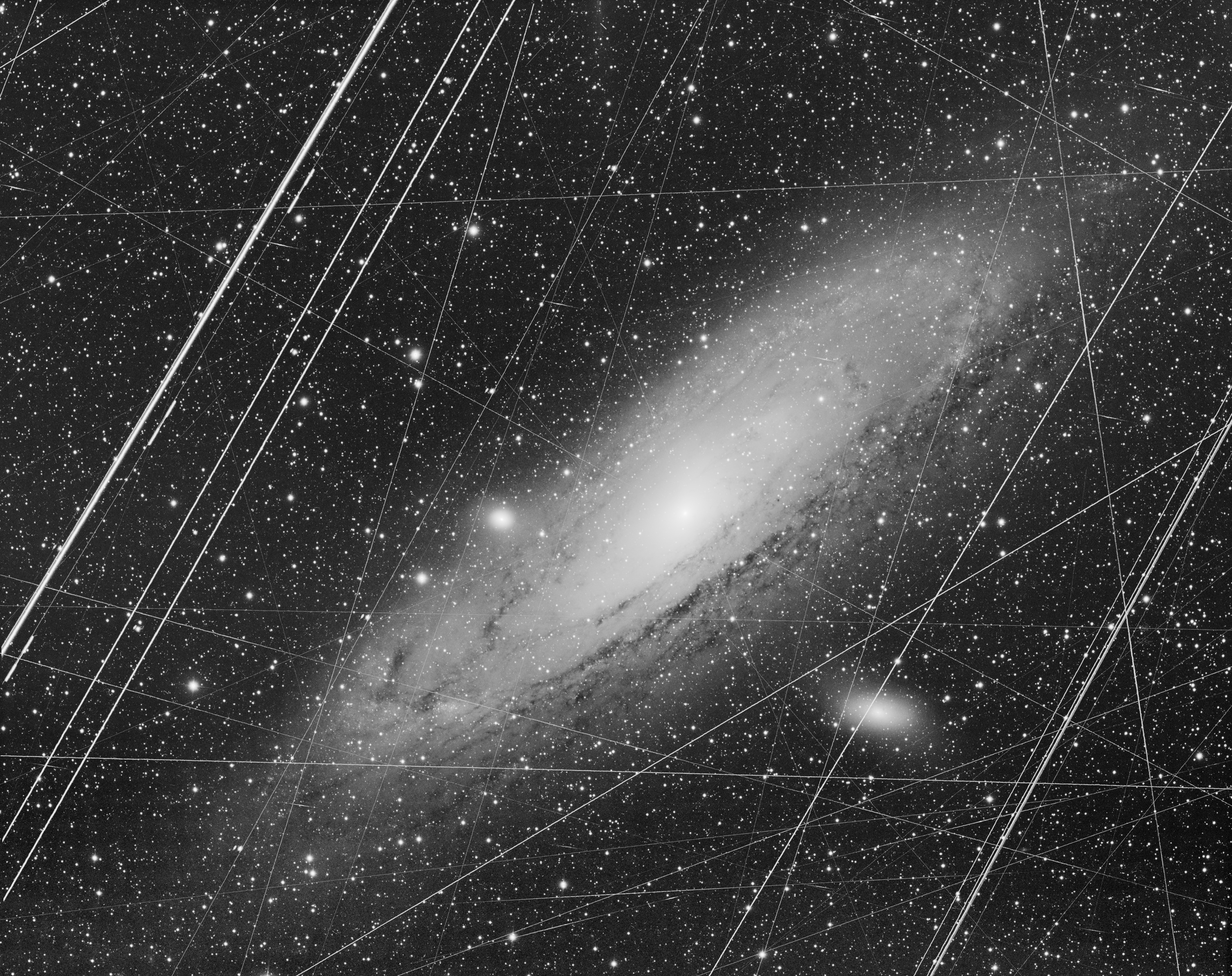 Airplanes, satellites, Muon's, Worm's/ Gamma rays.... Normally we remove all the traces of cosmic radiation and human Engineering visible in the Sky. Radio-active particle traces and Gamma rays have to be removed also. It is kind of busy in the Sky these days as shown here in this stack of 223x300 second exposures made without fancy statistical cosmetic outlier removal Nasa APOD